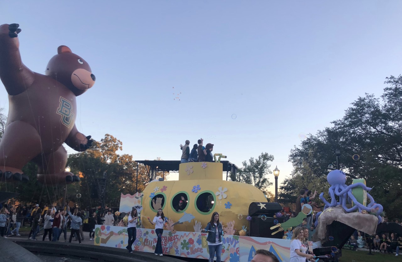 This is a photo of a homecoming parade, depicting a float and a floating bear.